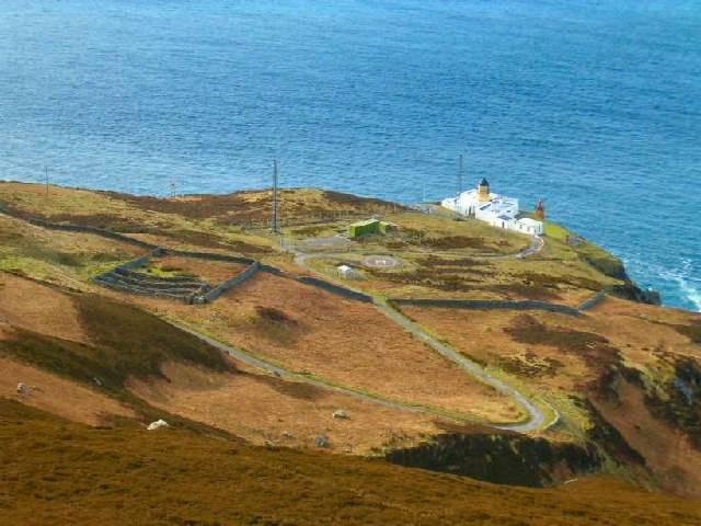 Mull of Kintyre Lighthouse. ... from the land! The peculiar stone-walled structure is "Harvey's Acres" to keep OUT the sheep from the keeper's own vegetable gardening and shelter the crops; it gets very windy here in the winter.